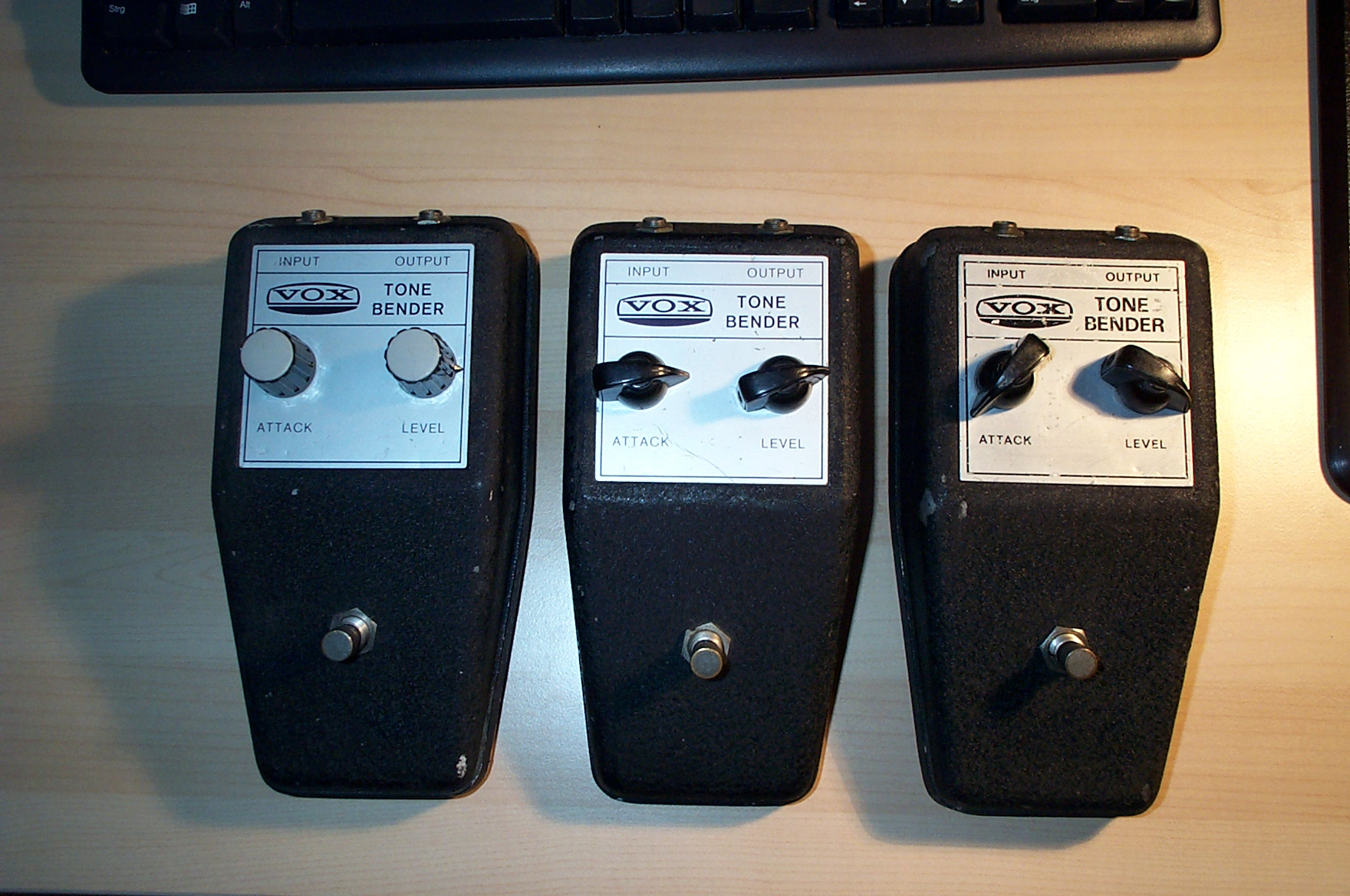 At one point, I had three Vox Tone Bender pedals.